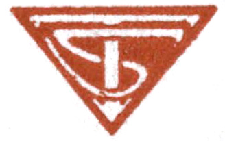 Publisher's logo (Thomas Seltzer) from Tortoises by DH Lawrence (1921 edition)